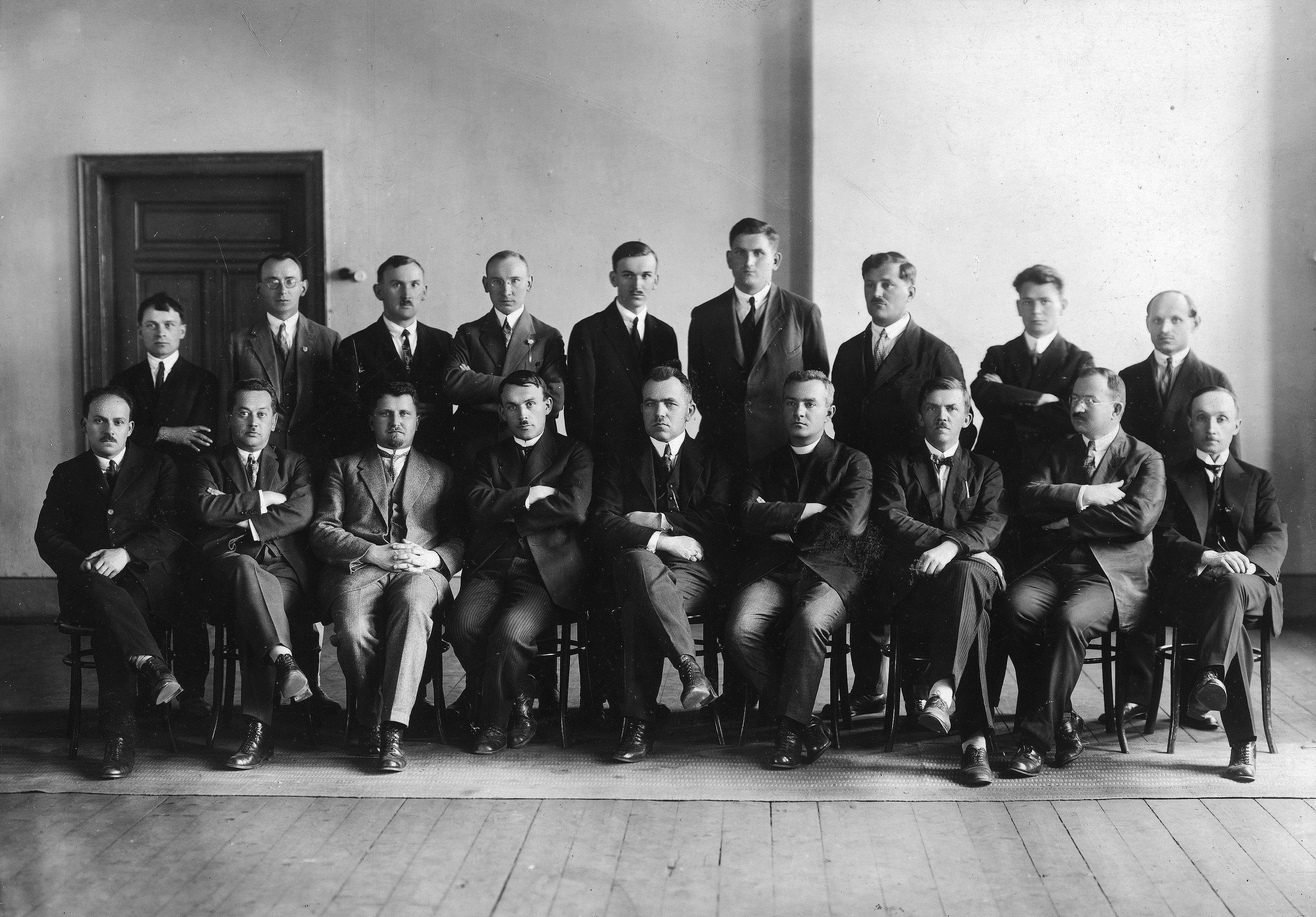 Piotr Feliks, principal of the Juliusz Słowacki Polish Grammar School in Orłowa, Zaolzie, Czechoslovakia, together with the teacher staff of the school.